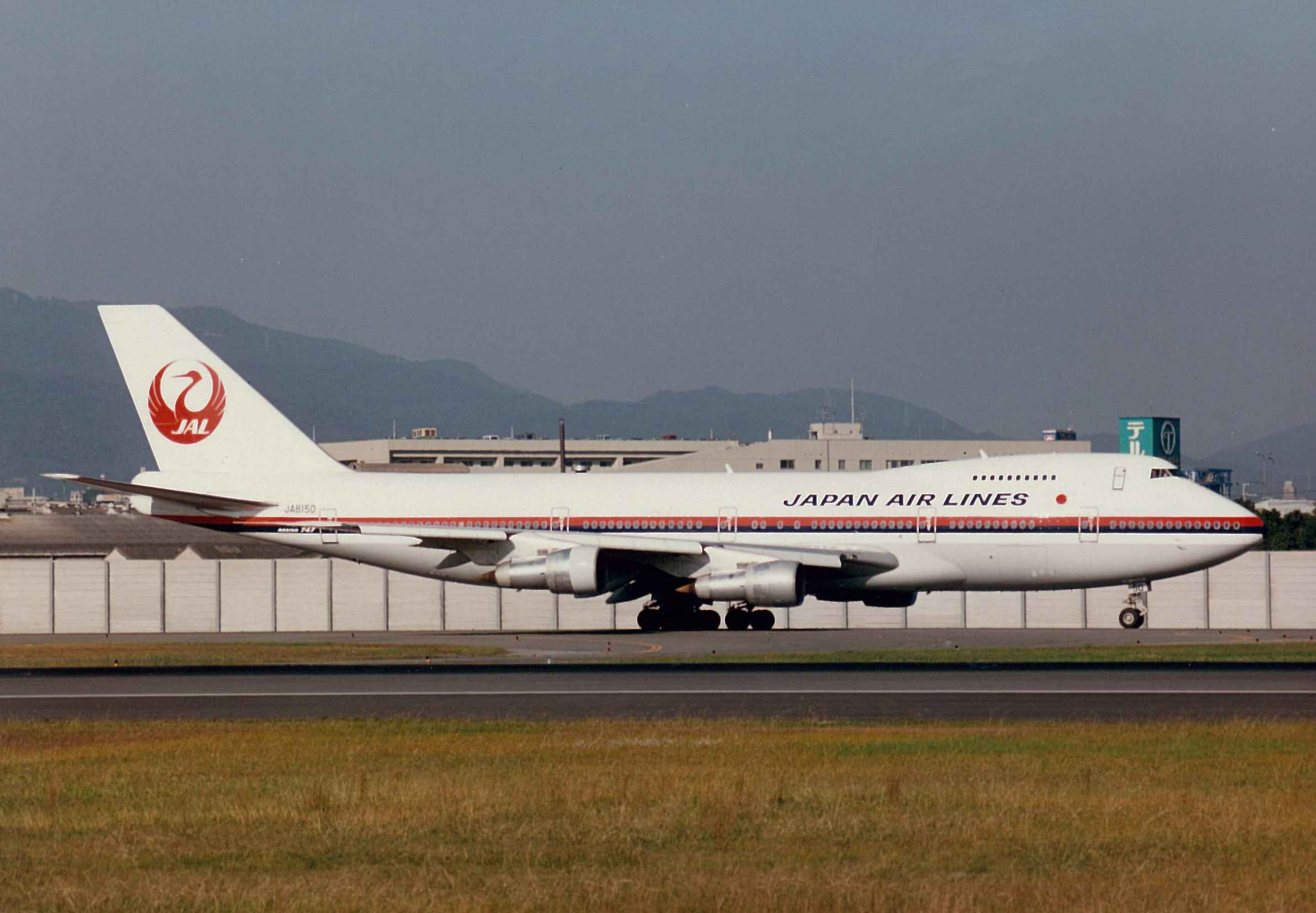 It is JAL which it photographed in Itami, Osaka Airport.